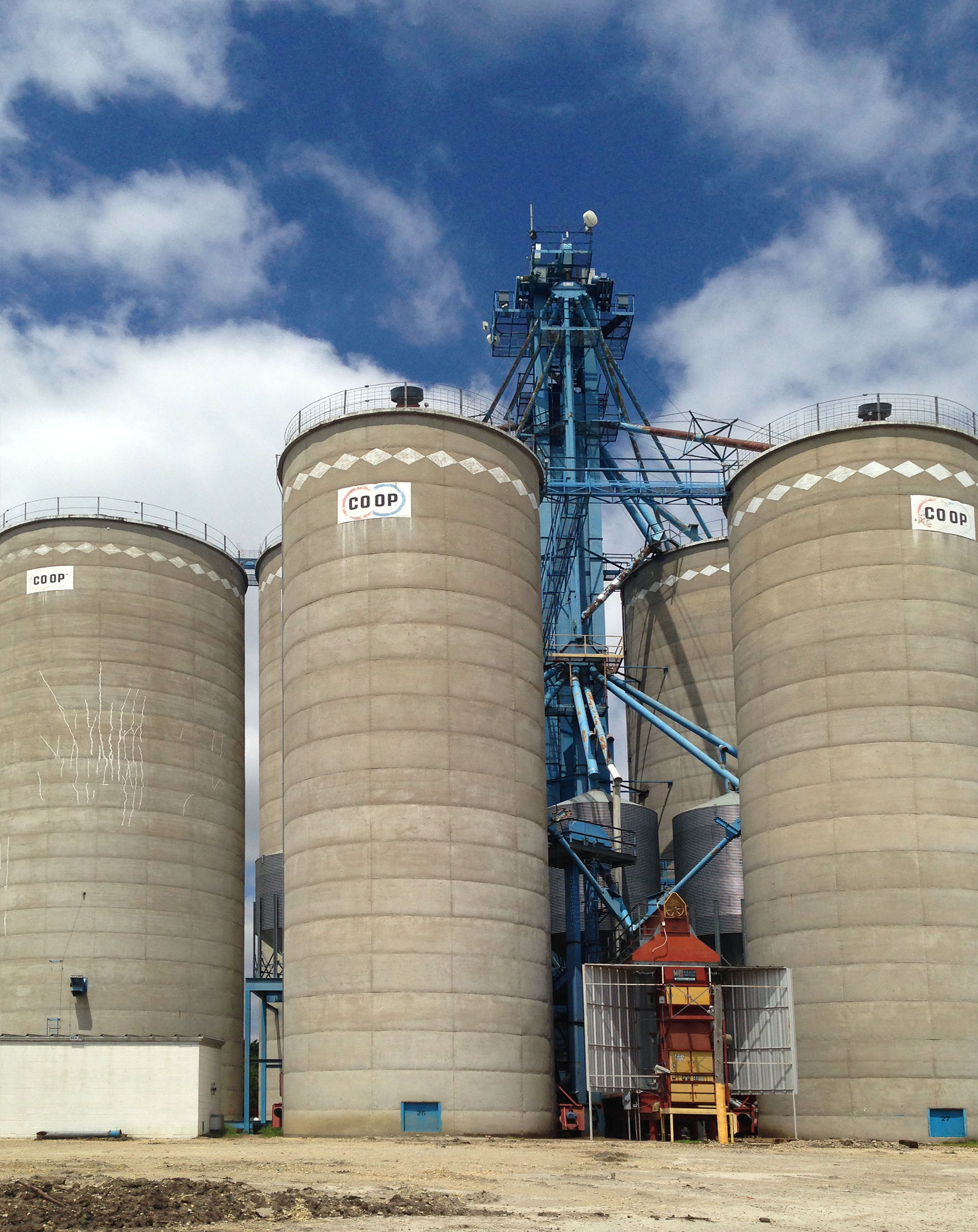 Silos for grain storage, Furley, Kansas